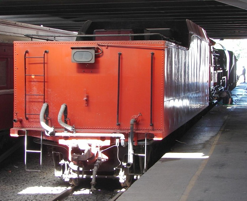 Class 26 Type EW1 tender, with bunker sides raised to increase the coal capacity